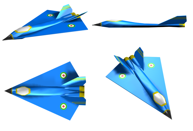 Drawing type of airplane SofrehMahi (Iran)